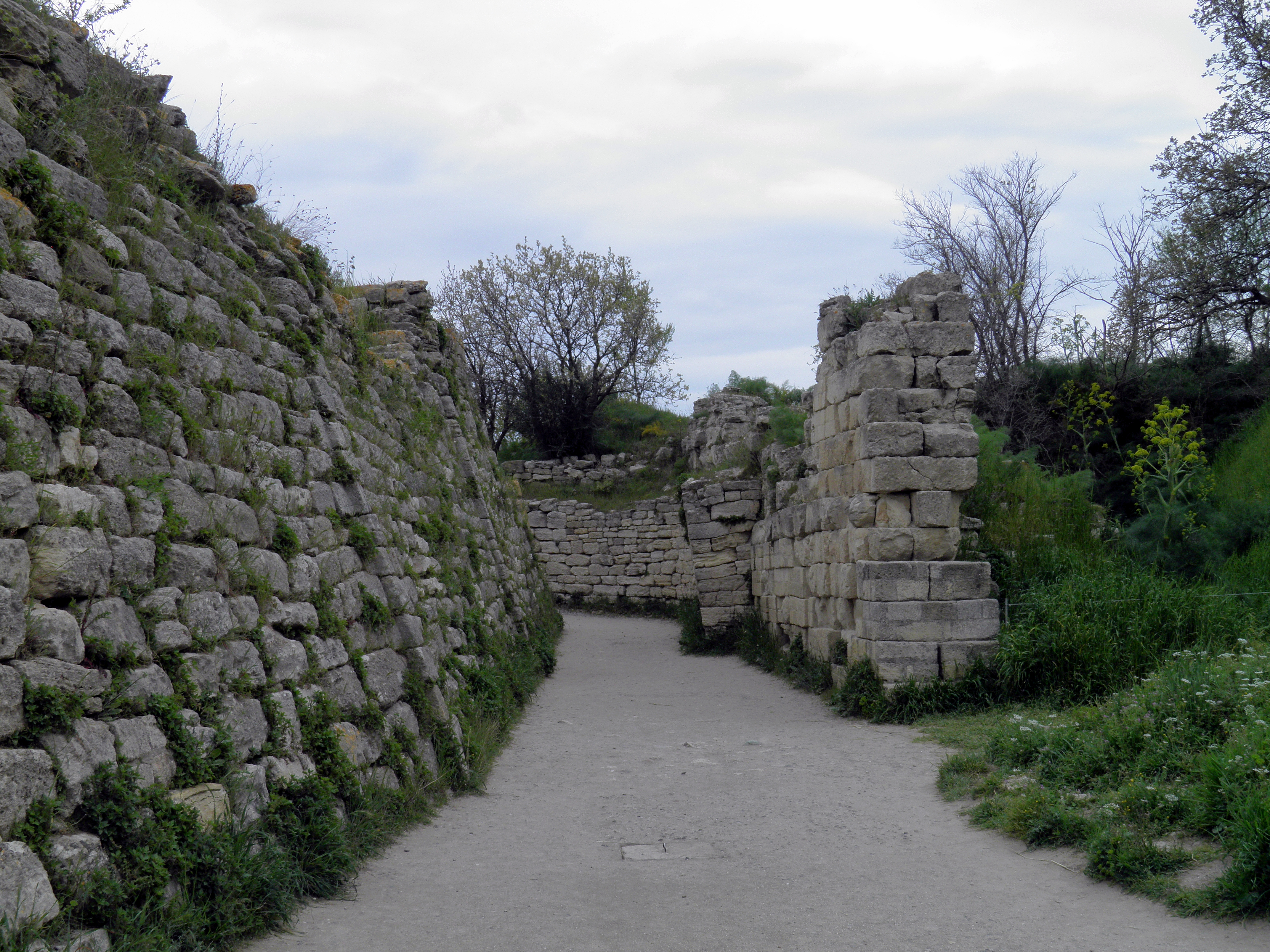 Portion of the legendary walls of Troy (VII), Troy (Ilion), Turkey